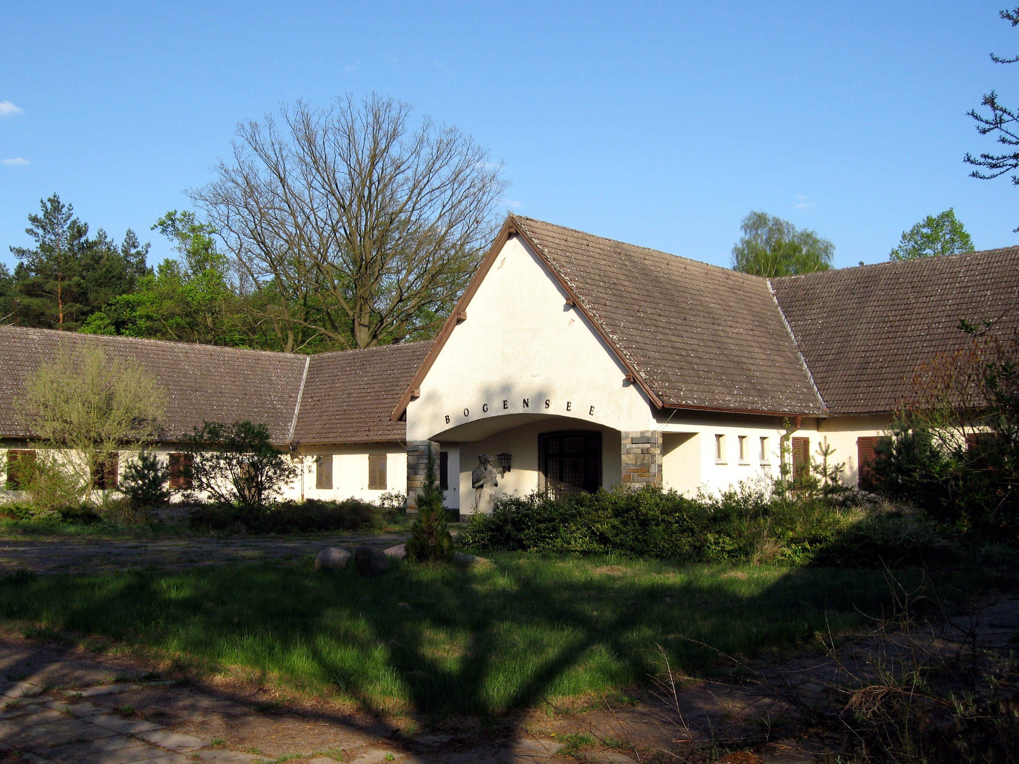 Joseph Goebbels' weekend house at Bogensee Lake, in the village of Lanke.